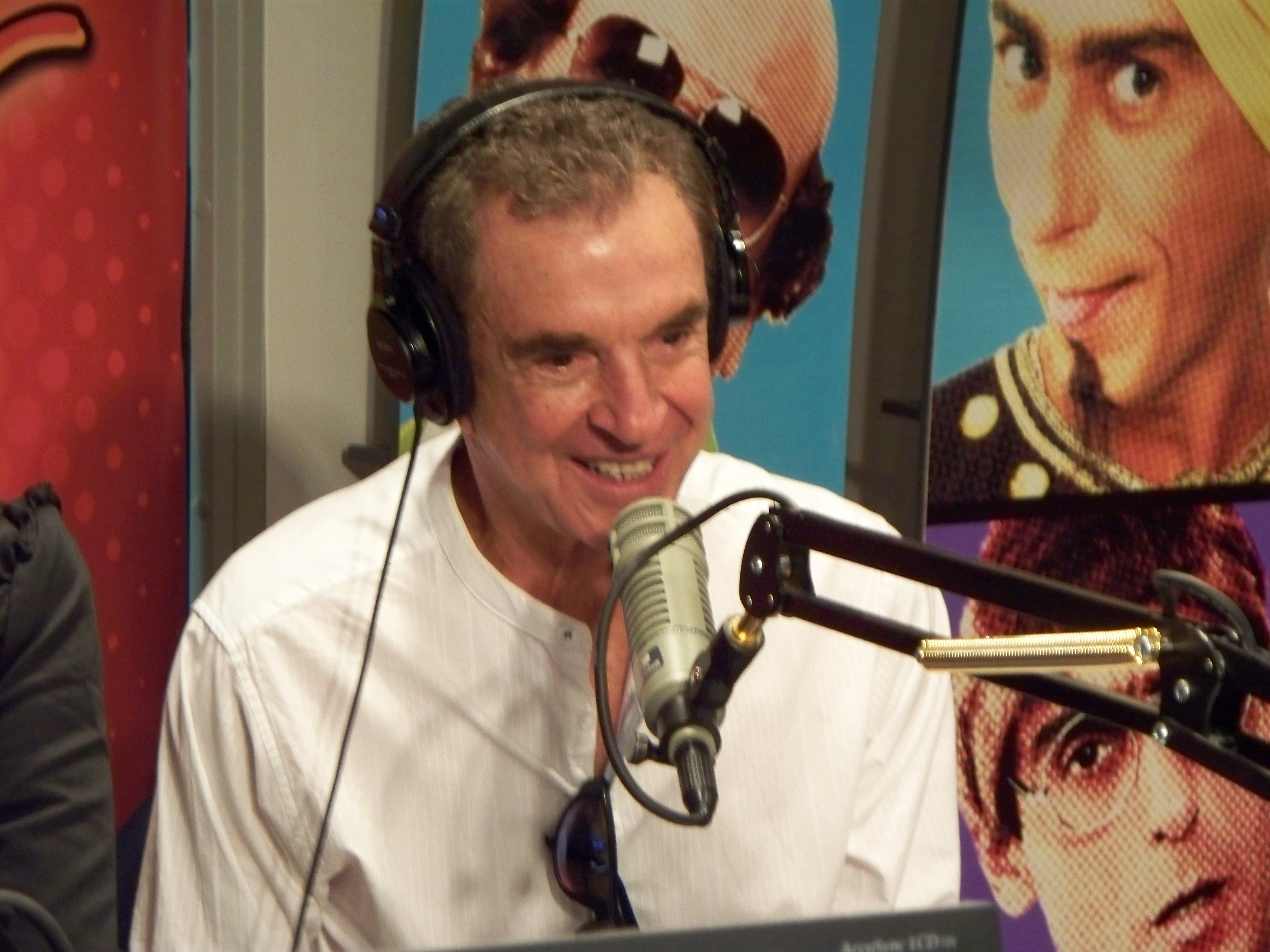 Singer Roberto Jordán in "La Fonomanía", Clásica FM 92.3, Miami, Florida.